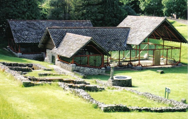 Roman villa, Dorchester